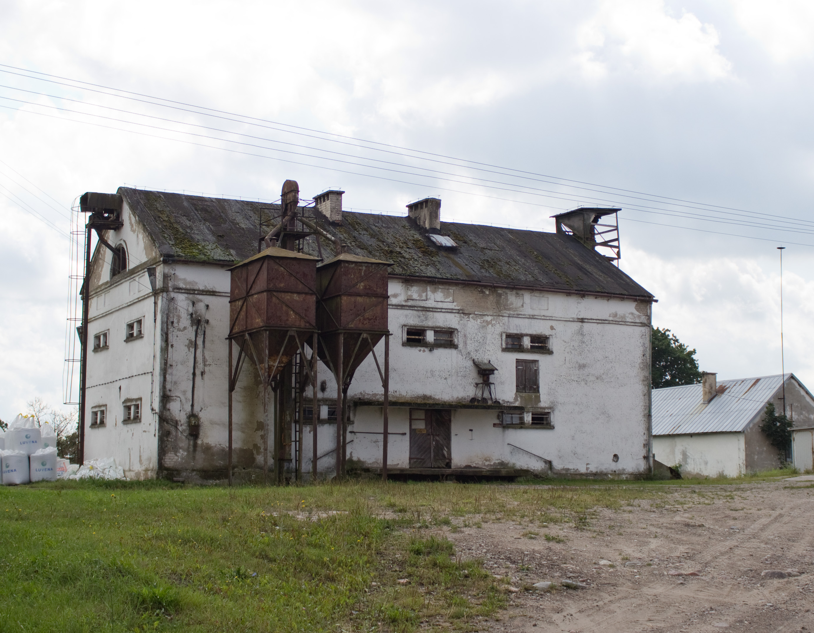 Manor house, Budziska, gmina Mrągowo, powiat mrągowski, Warmian-Masurian Voivodeship